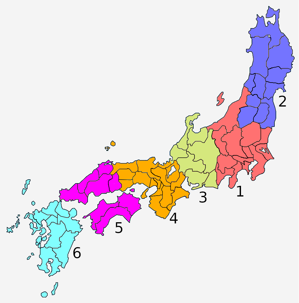 From the The Six Regions Chindai Table on April 7, 1875..